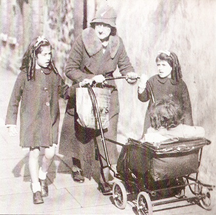 Ruxton children. Elizabeth, Diane, and Billie. With their nanny, Mrs Anderson. 1935.